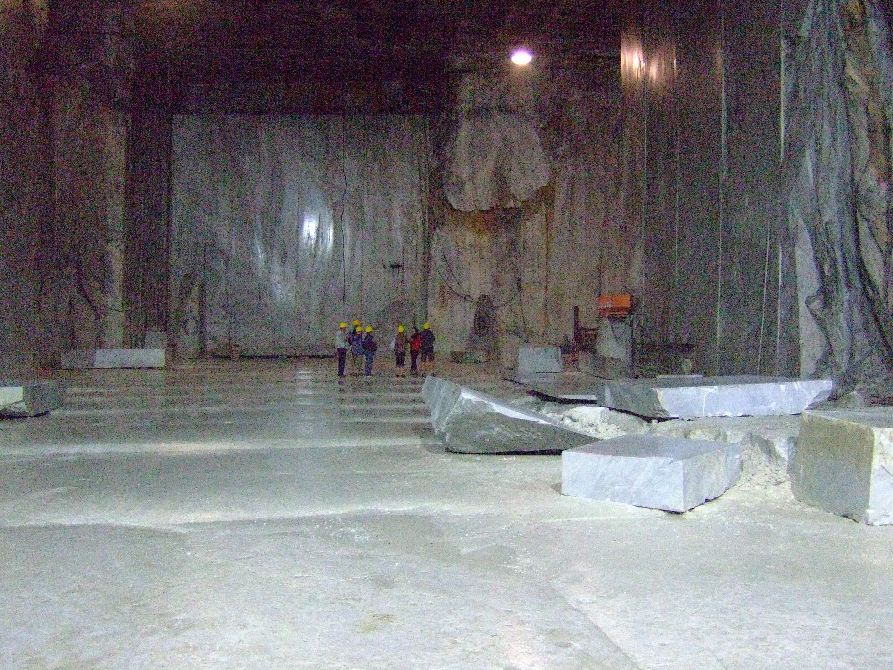 Cave di Fantiscritti, Carrara-Italy.